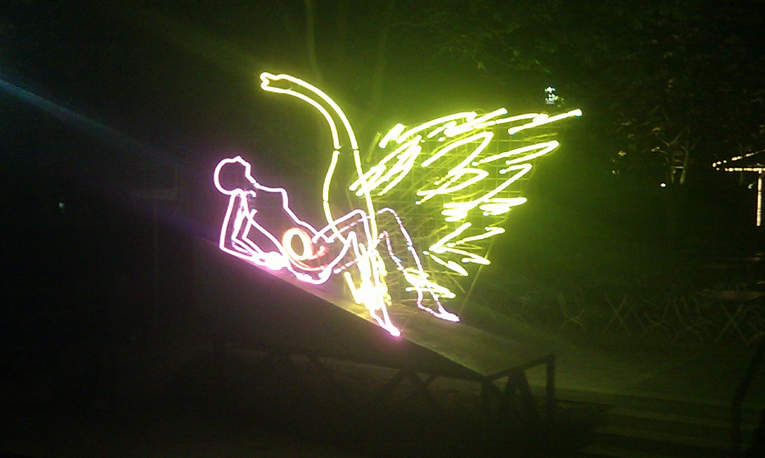 "Leda & Swan" by AES in Estrel Hotel Biergarten, Berlin, sculptured 1996